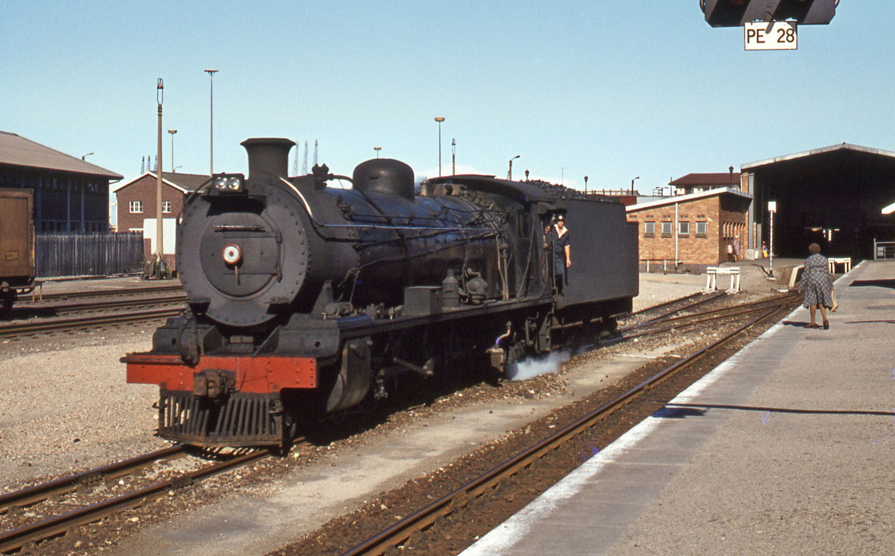 SAR Class 15AR 1566 (4-8-2) NBL Location: Port Elizabeth